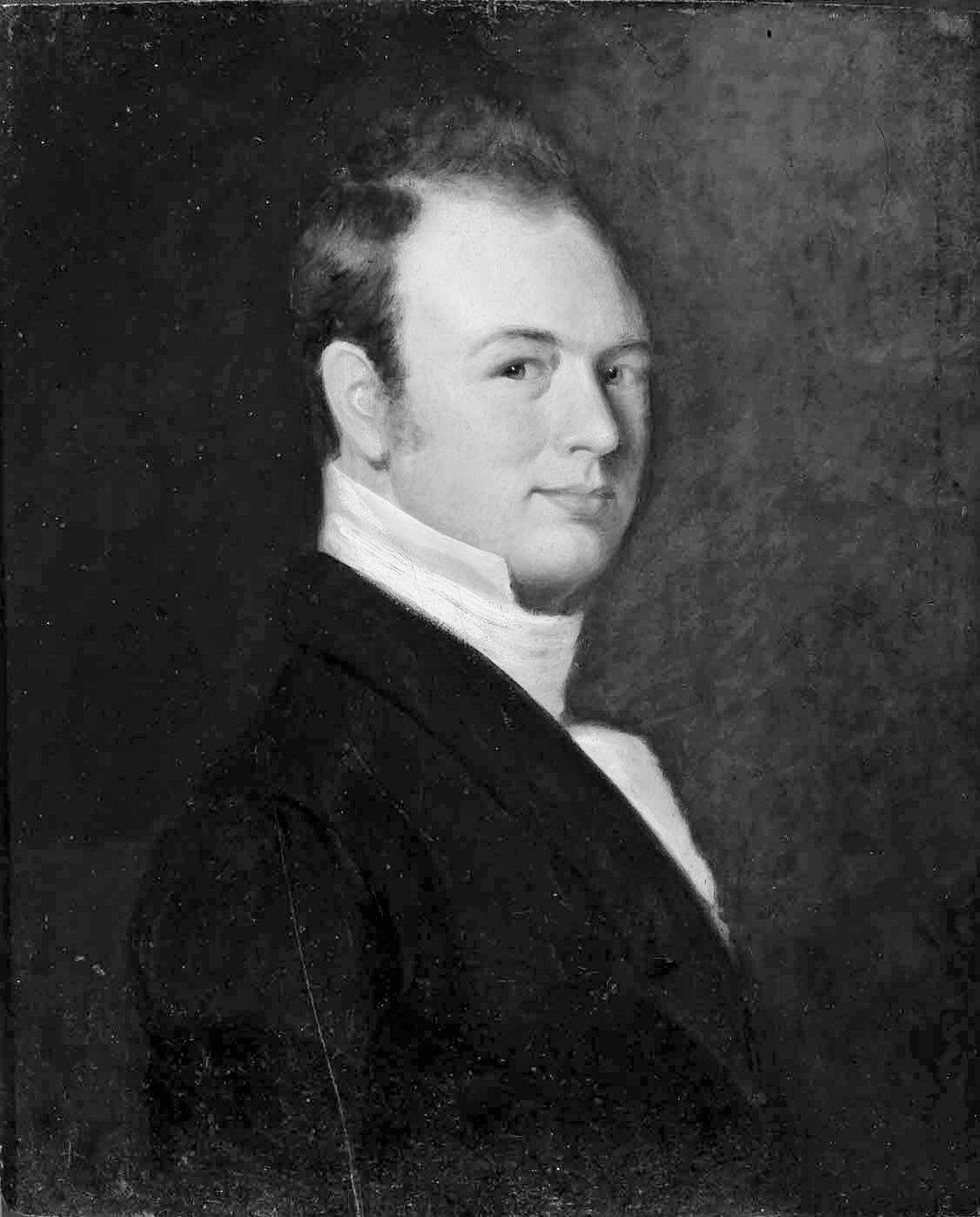 John Goffe Rand, artist and inventor, self portrait, oil on board, c. 1836. (Courtesy of the Smithsonian American Art Museum).